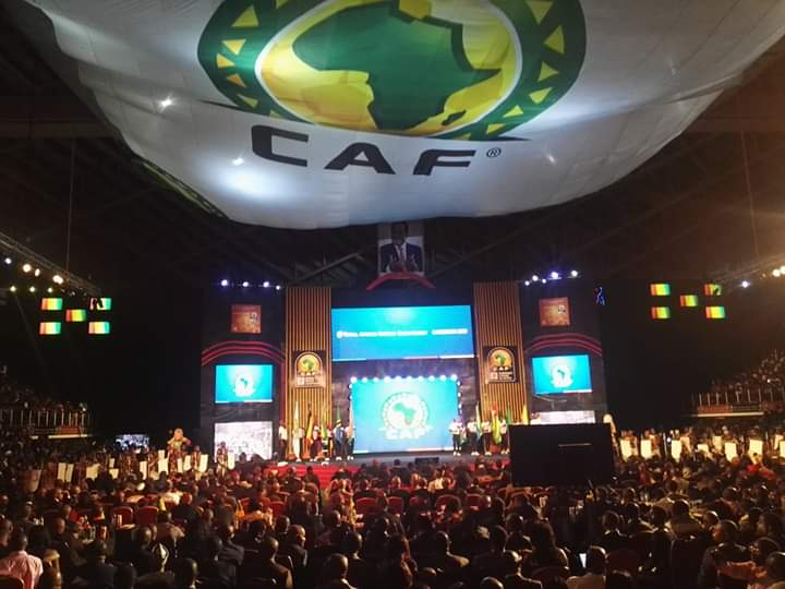 Balloting of African nations championship This is an image with the theme "Africa on the Move or Transport" from: Cameroon